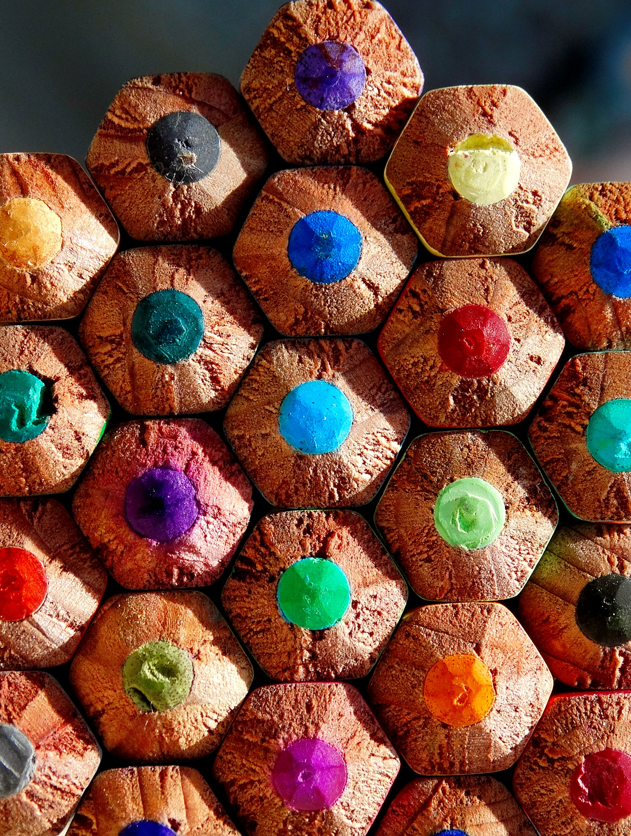 CARAN d'ACHE Classicolor water-soluble colour pencils (back view)